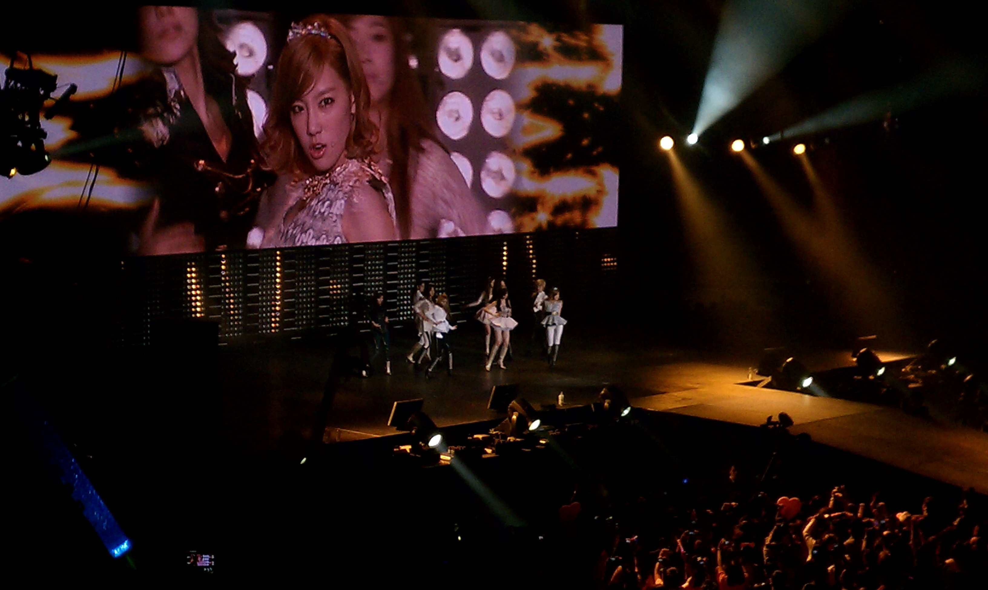 Girls' Generation performing "The Boys" in NY Smtown Concert